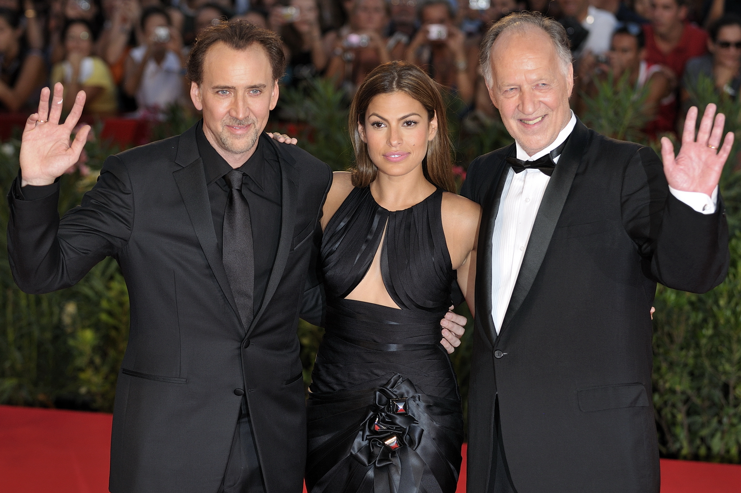 Nicolas Cage, Eva Mendes and Werner Herzog at the 66th Venice Film Festival